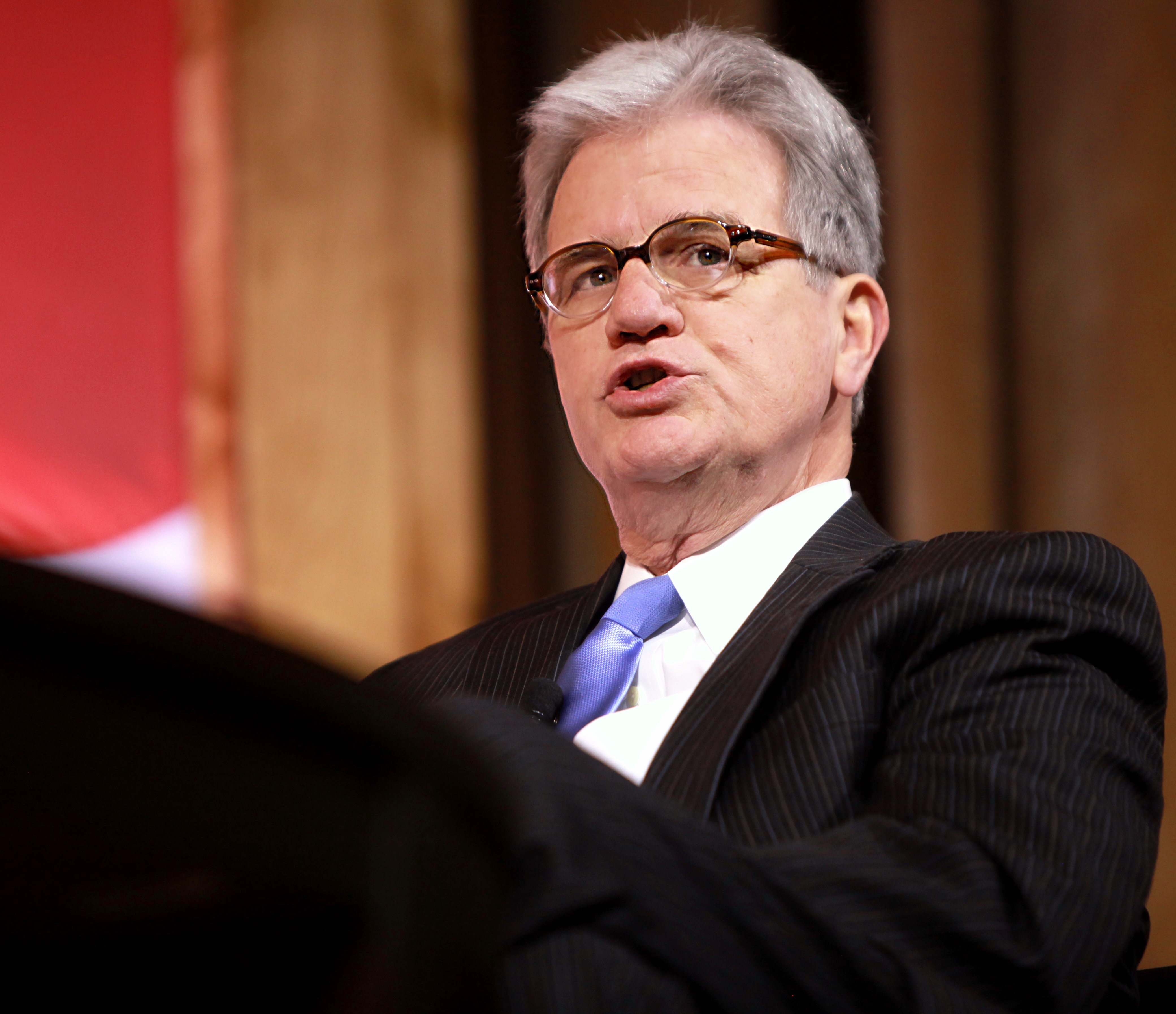 National Harbor, Maryland